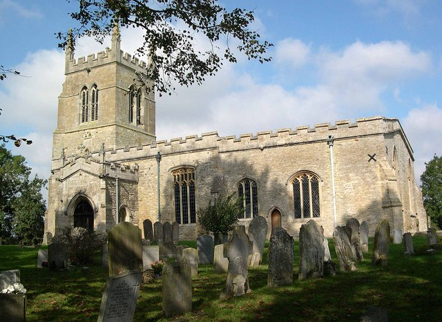 All Saints' parish church, Riseley, Bedfordshire, seen from south-southeast